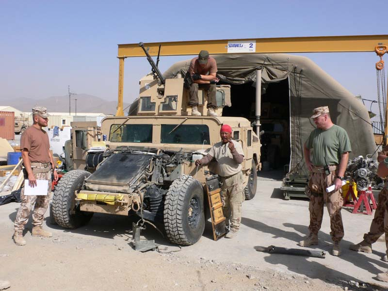 Humvee maintenance by Czech Army in Afganistan